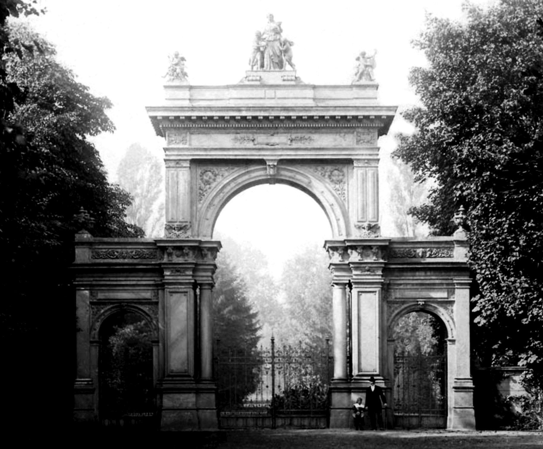 Entrance of the private park of Hermann Killisch-Horn (1821–1886) in Pankow near Berlin. Styled in Italian Renaissance revival architecture similar to a triumphal arch.